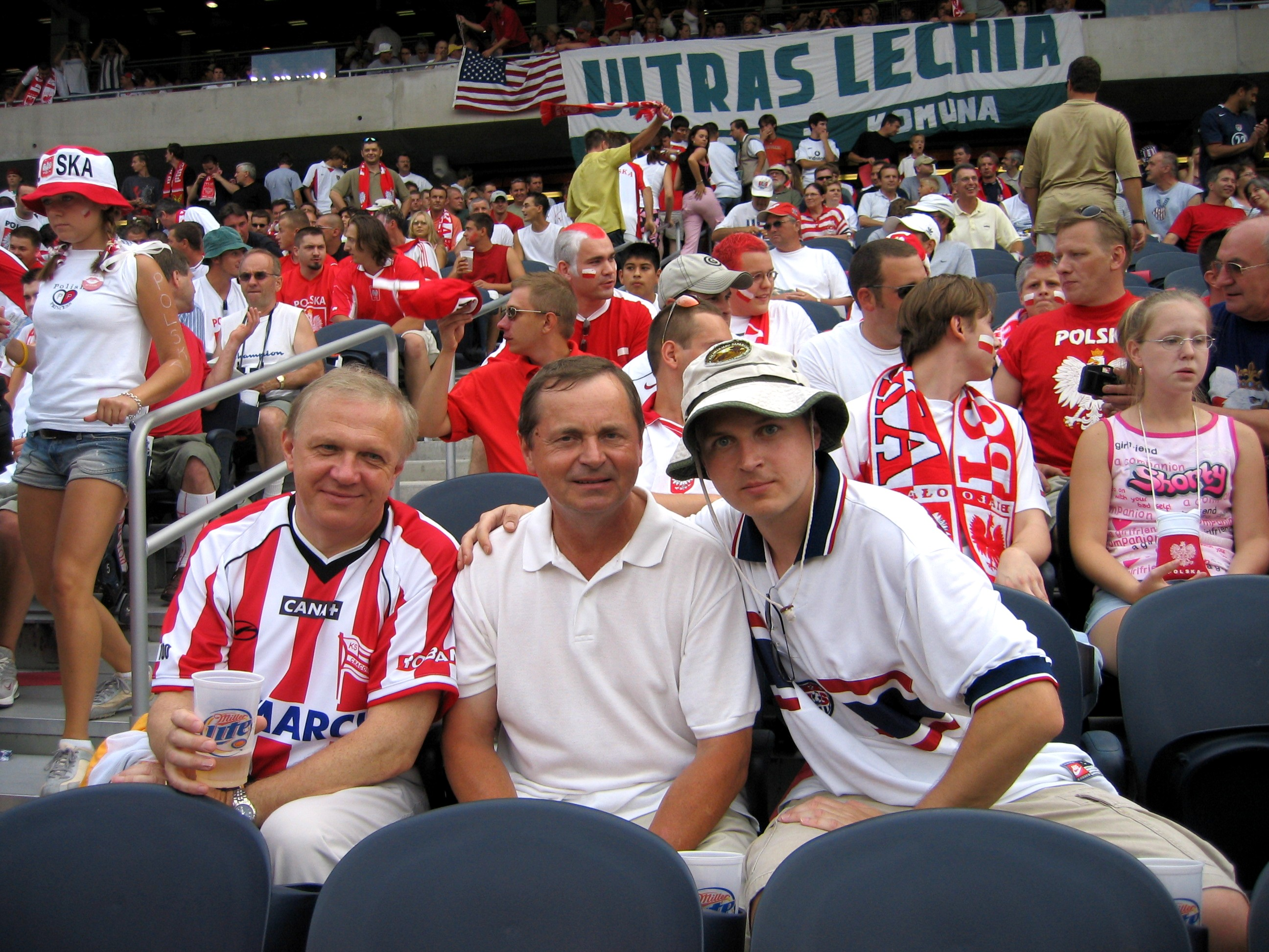 Footbal game audience